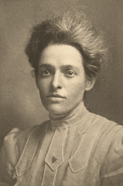 Ida Annah Ryan (1873–1950) one of the earliest American women architects, seen in a school photo from her time at MIT, circa 1906